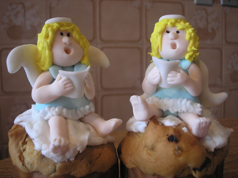 Cake